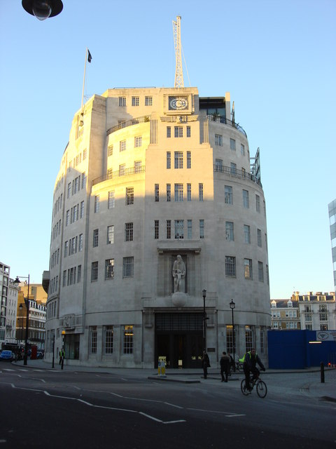 Broadcasting House Broadcasting House is the headquarters and registered office of the BBC in Portland Place, London. It is home to BBC Radio 3, BBC Radio 4, and BBC 7. (Nearby on Great Portland Street in Yalding House is BBC Radio 1 and BBC 1Xtra. Next door in Western House is BBC Radio 2 and BBC 6 Music.) Architect G Val Myer designed the building in collaboration with the BBC's civil engineer, M T Tudsbery. The interiors are the work of the Australian-Irish architect Raymond McGrath. He set up and directed a team that included Serge Chermayeff and Wells Coates and designed the vaudeville studio, the associated green and dressing rooms, and the dance and chamber music studios in a flowing Art Deco style. It was later said of his efforts that "the designs for the BBC gave the first real fillip to industrial design in England". Broadcasting House was officially opened on May 14, 1932 and is now grade II* listed.